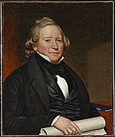 George Davenport (1783-1845). Note: Portrait of Colonel George Davenport. Davenport, who founded the city that bears his name along with Antoine LeClaire, had been a prosperous English fur trader who came to the area in 1810 to arrange for supplies for soldiers at Fort Armstrong and stayed on, settling on the banks of the Mississippi and becoming one of the most influential men in the territory. The portrait is believed to have been painted shortly before Davenport was killed by river pirates at his Arsenal Island home in July of 1845. Britt portrays the Colonel holding a rolled parchment city map of Davenport. The Colonel commissioned a portrait for his family that now resides in the State Archives in Des Moines. Britt painted an exact copy of the commission for himself. It was one of the few possessions Britt transported in 1852 (unframed and rolled up) by oxcart all the way to Oregon where it hung in the study of his Jacksonville home until his death (The Figge Art Museum ).